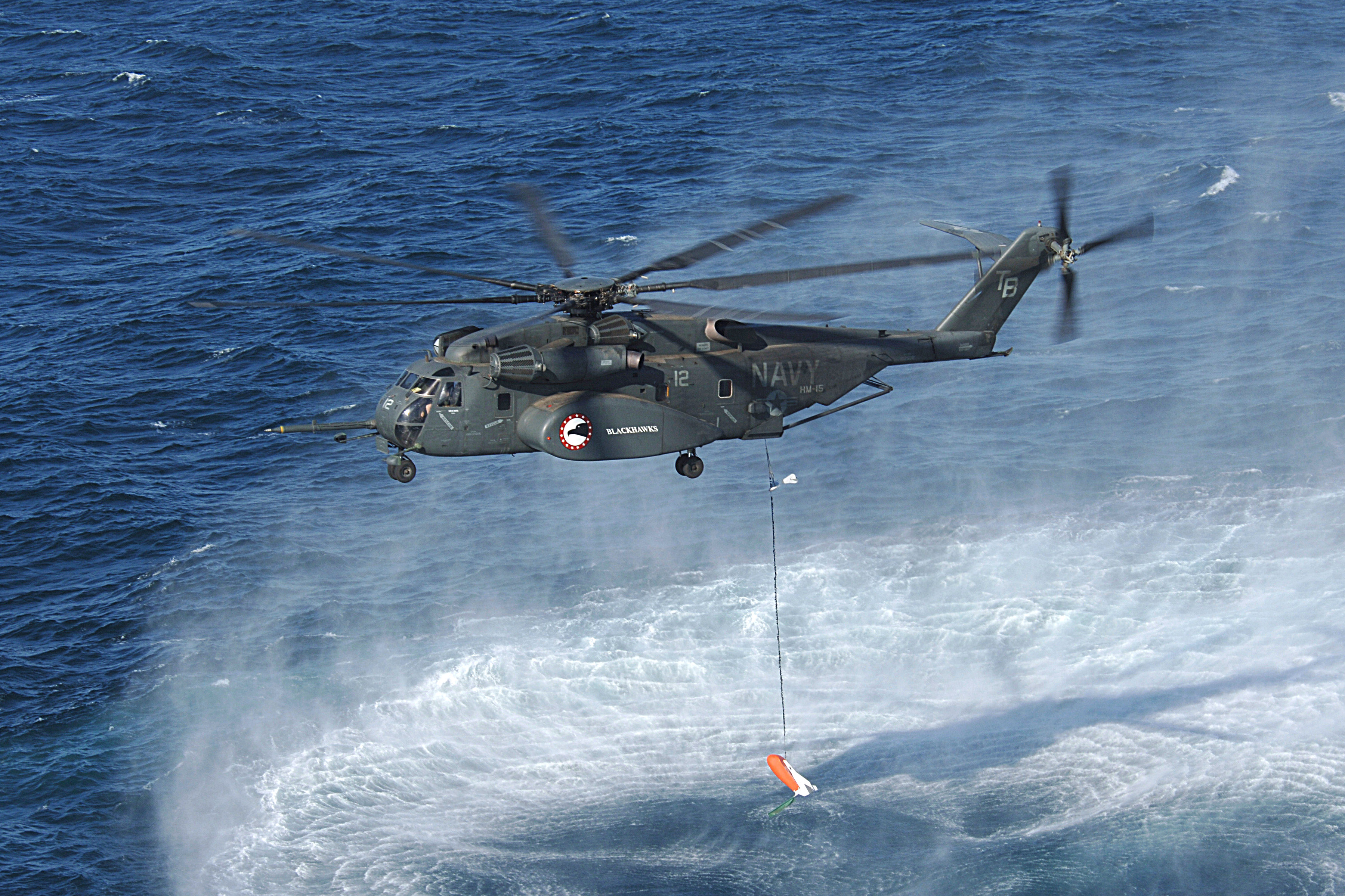 PERSIAN GULF (April 16, 2007) - An MH-53E Sea Dragon assigned to Helicopter Mine Counter Measure Squadron (HM) 15 conducts a mine sweeping exercise. HM 15, deployed in support of operations in the Central Command area of responsibility (AOR), is homeported at Corpus Christi, Texas. U.S. Navy photo by Chief Mass Communication Specialist Edward G. Martens (RELEASED)